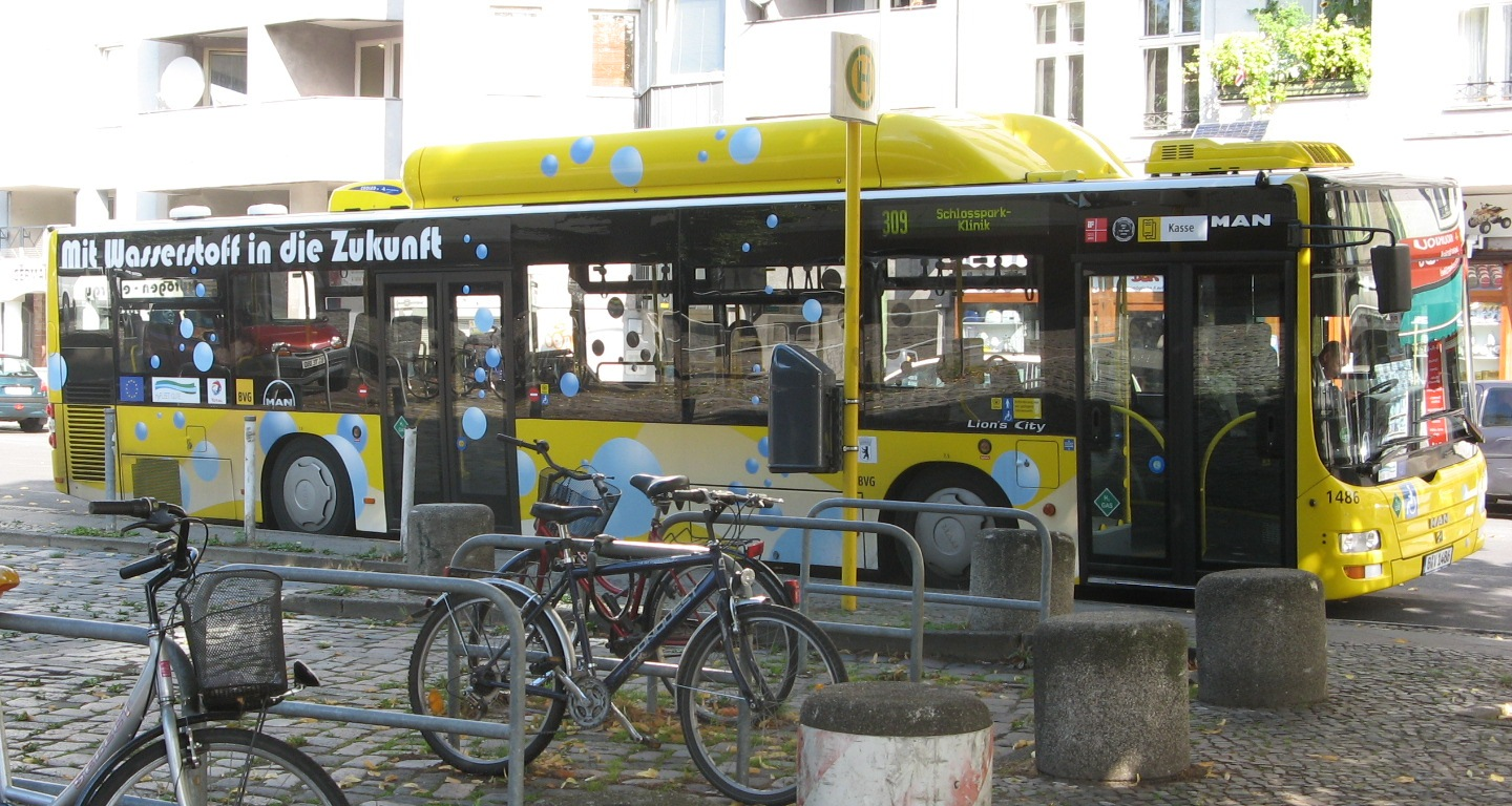 Berlin public bus using hydrogen as a fuel in internal combustion engine (ICE). Hydrogen stored in ten pressure cylinders of 50 kg of hydrogen at 350 bar. Bus weight: ~18T, ~80 passengers, autonomy: ~220 km (MAN Lion's City H).